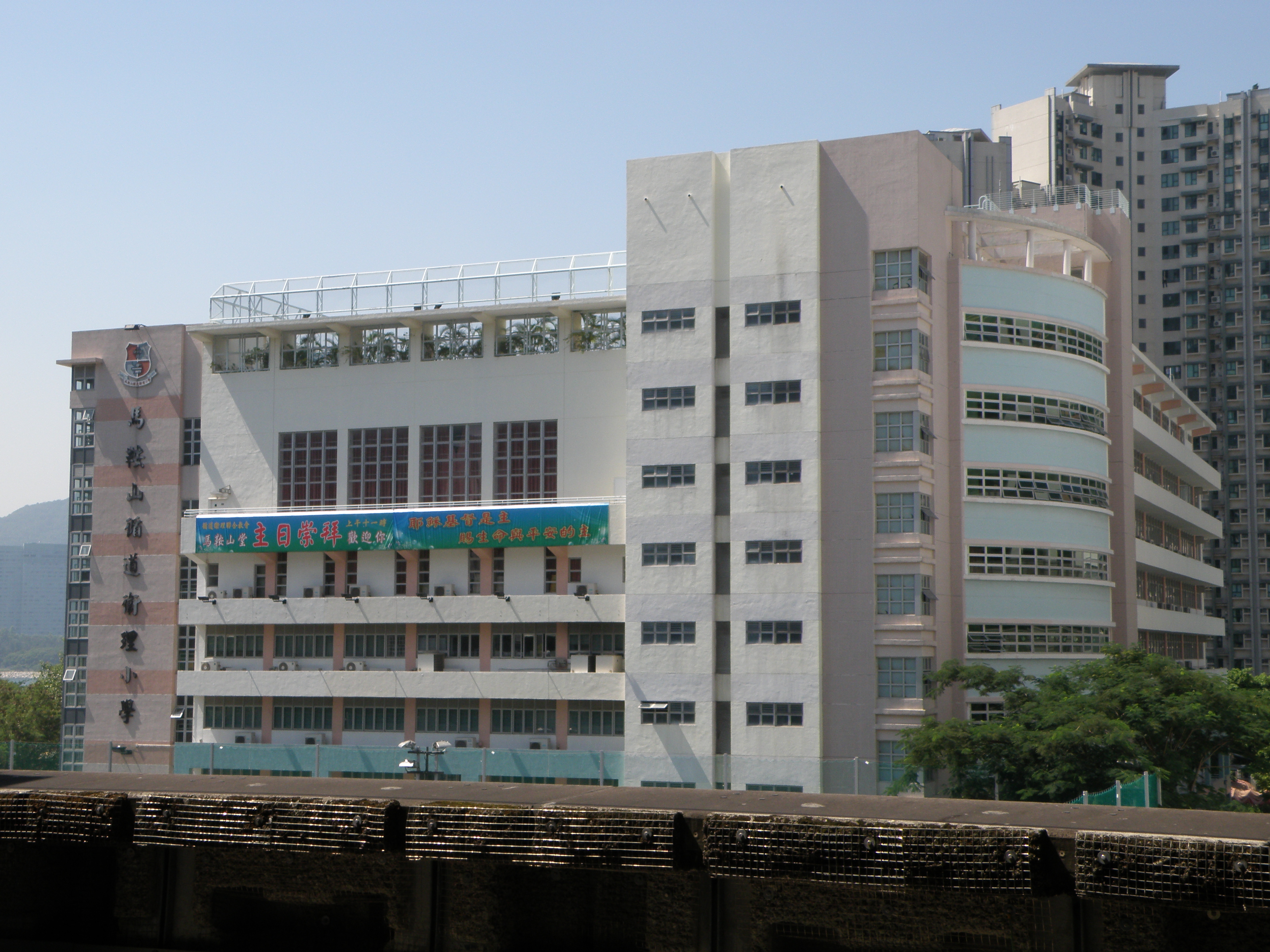 Methodist Primary School in Ma On Shan, Hong Kong.